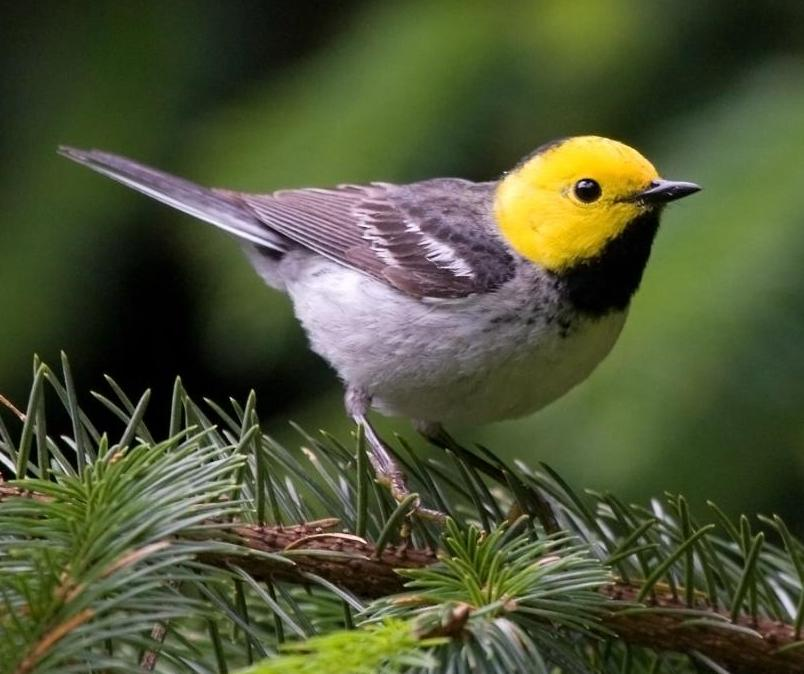 Hermit Warbler (Dendroica occidentalis) Male at Ecola State Park, Clatsop Co., Oregon (6/21/10)